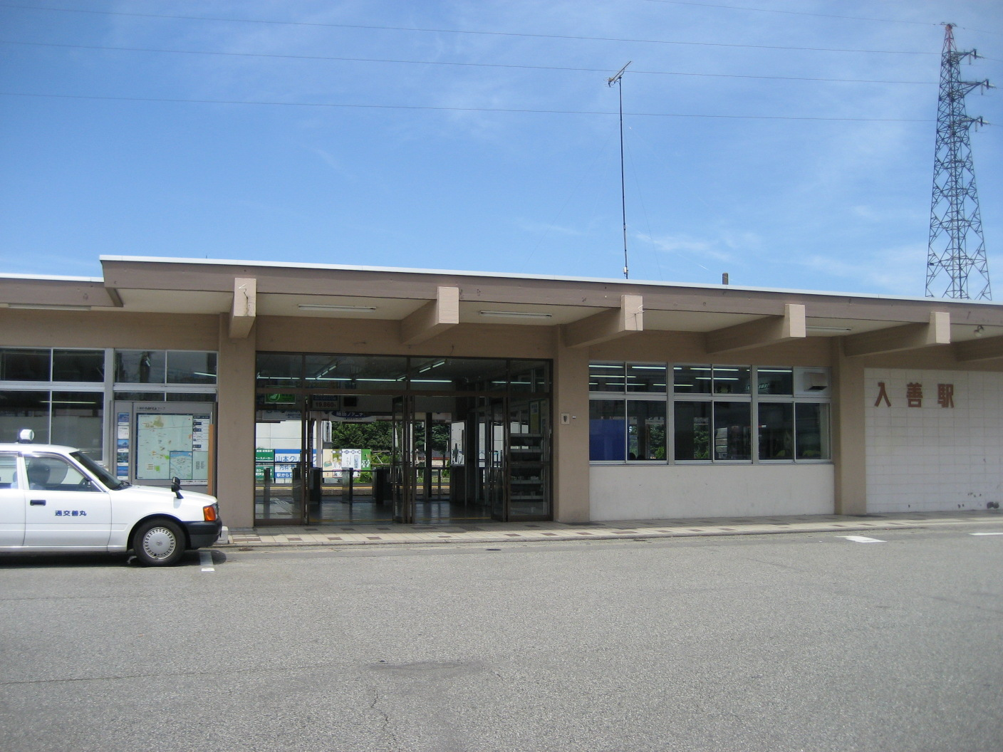 JR-west Nyuzen station